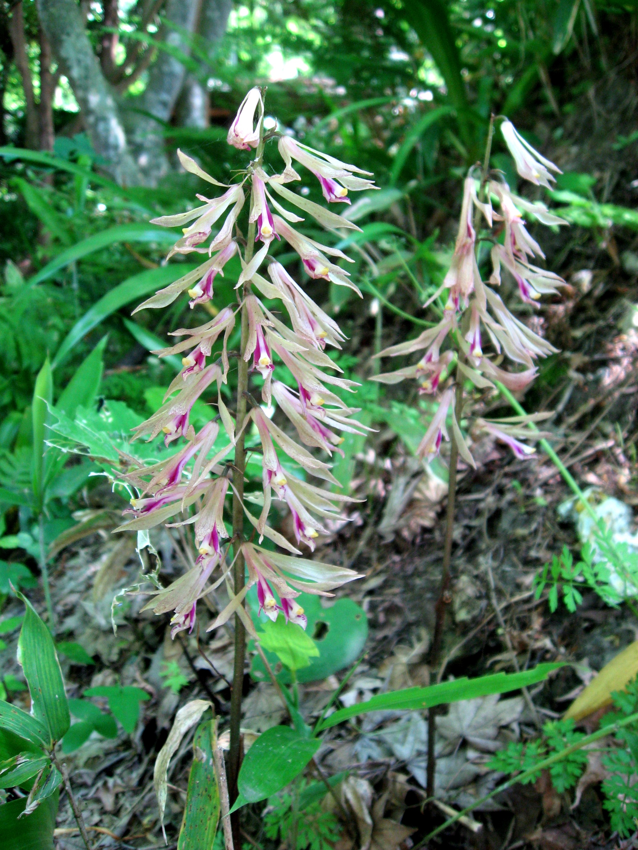 Cremastra appendiculata ,Flower, Aizu area, Fukushima pref., Japan